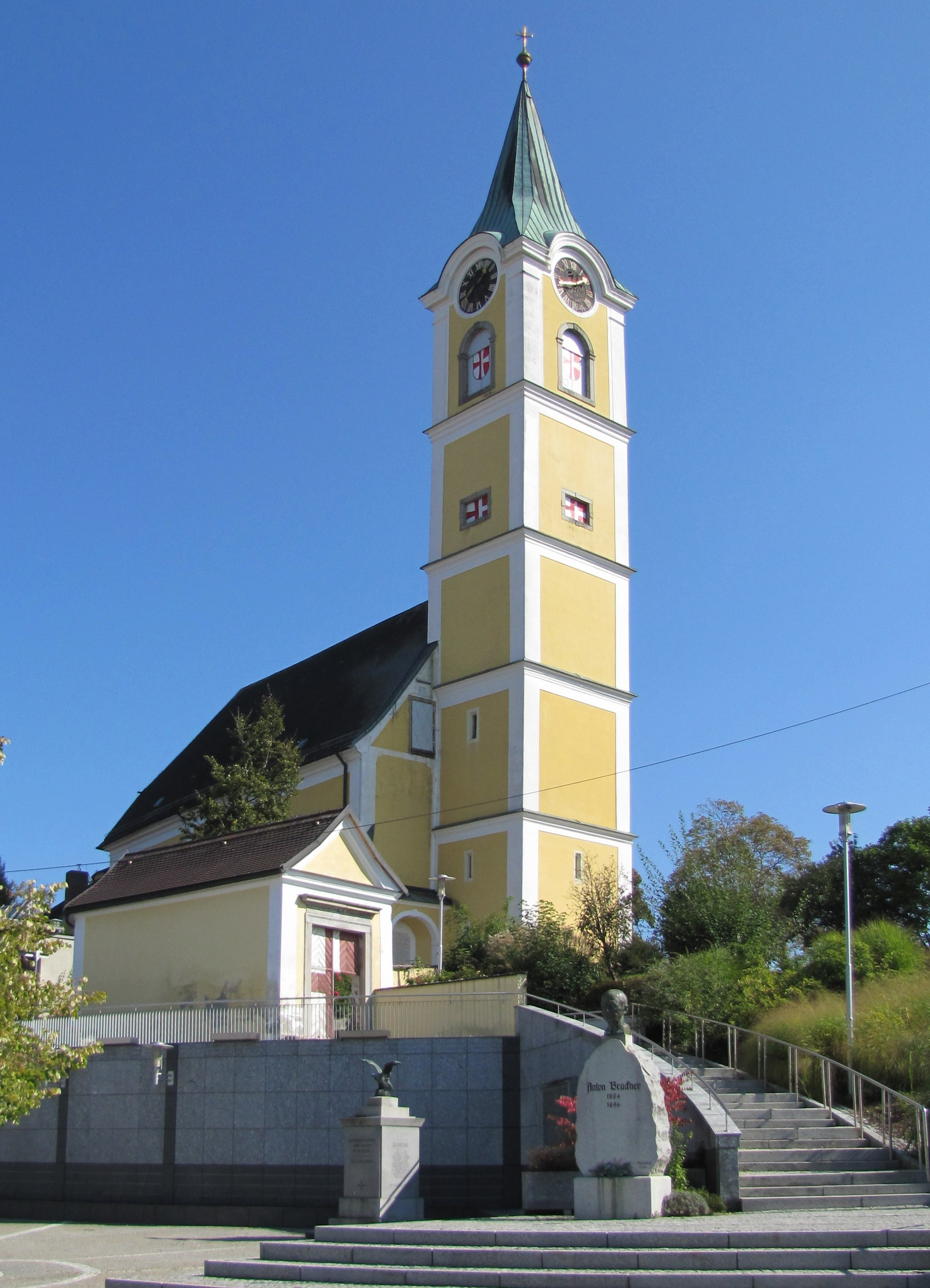 Kath. parish church "St. Valentin" Ansfelden